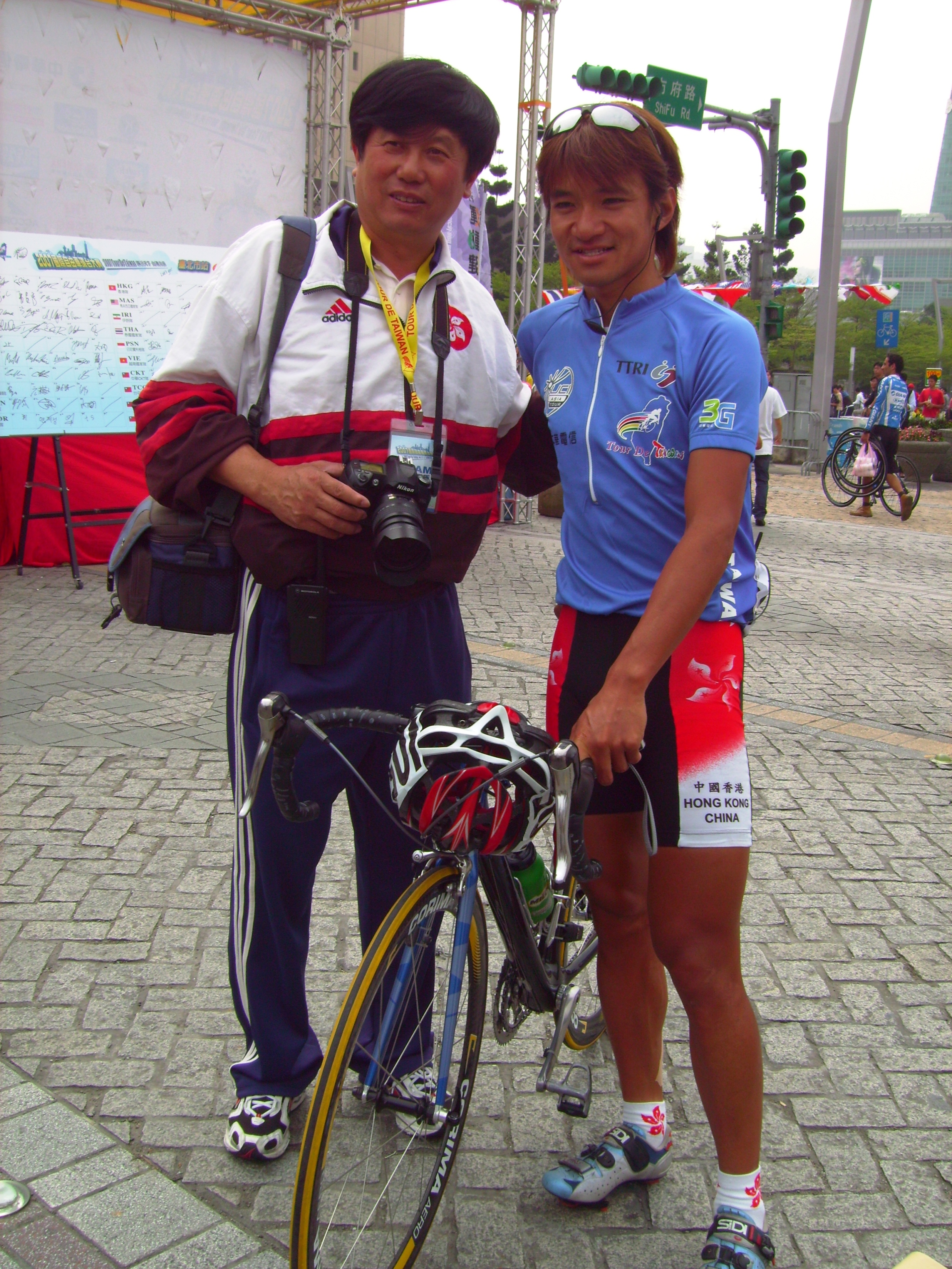 Tour de Taiwan 2007: Hong Kong National Team manager Jin-kang Shen (left) and Kam-Po Wong (right).